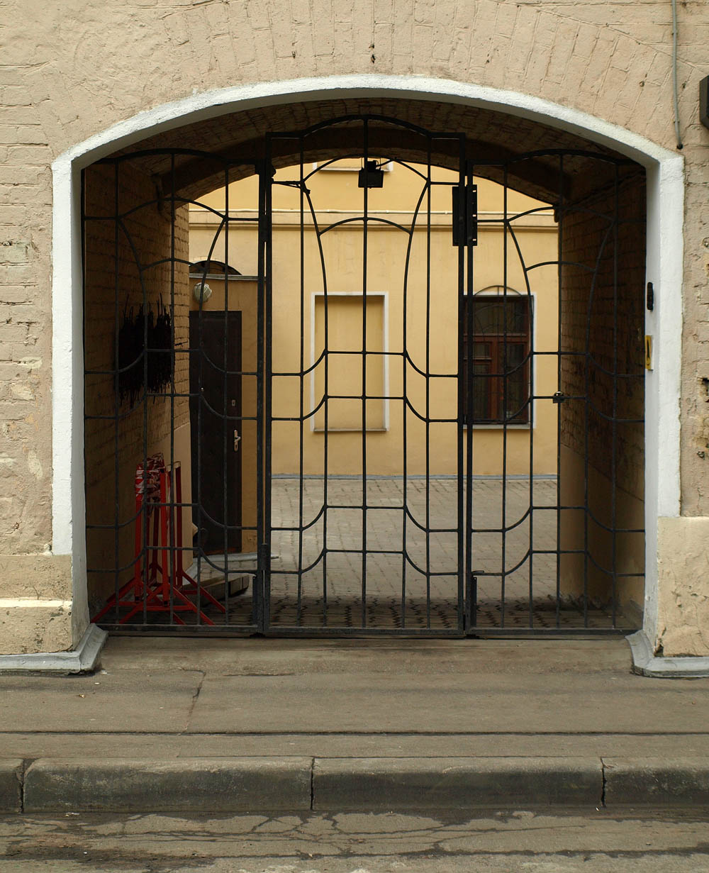 Vladimir Vysotsky museum, Moscow